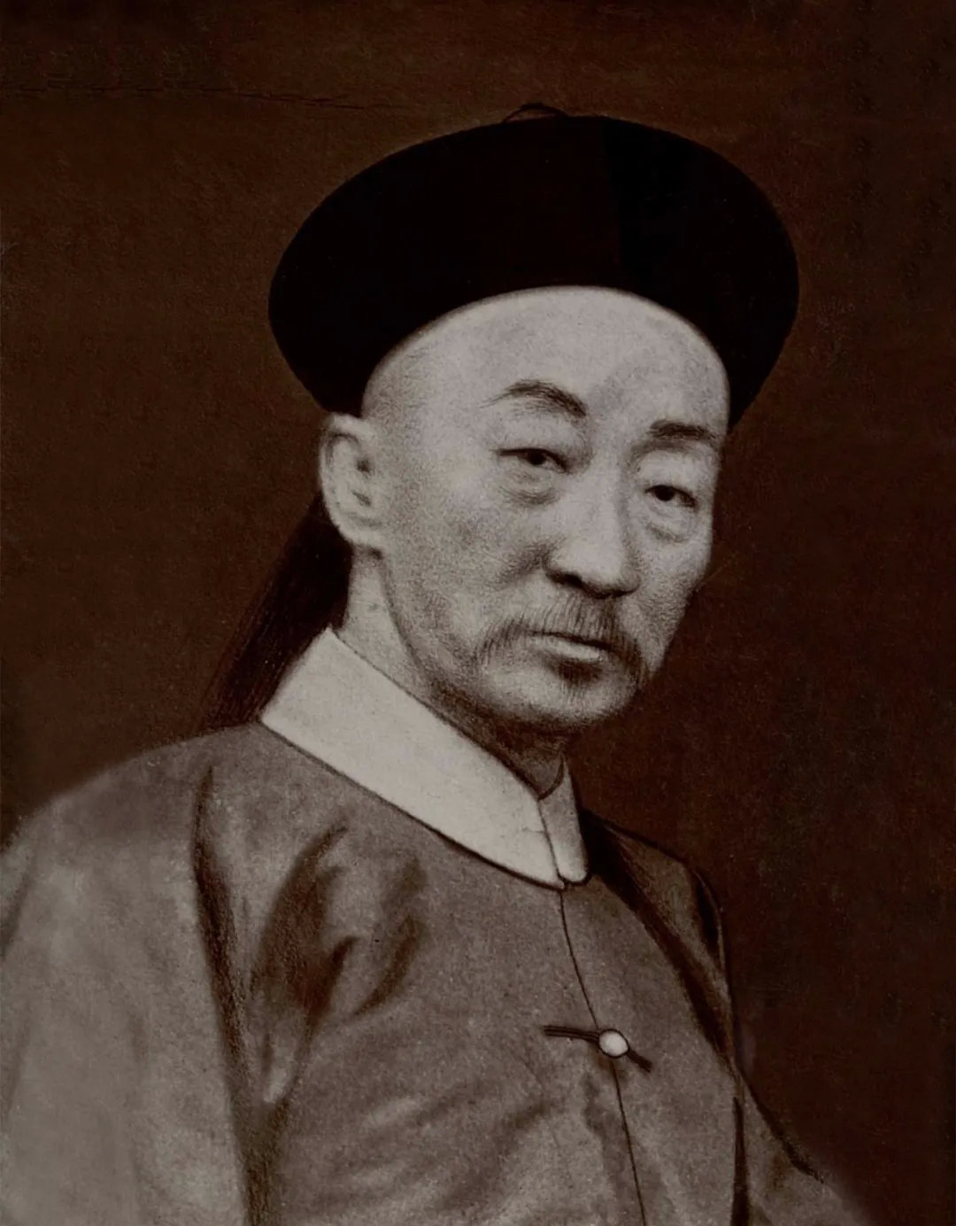 General Ronglu (Jung-lu), manchu statesman of the Qing dynasty